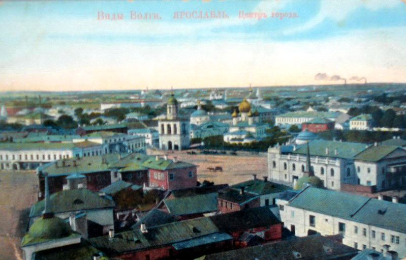 Yaroslavl. The Theatre Square. 1900-1910